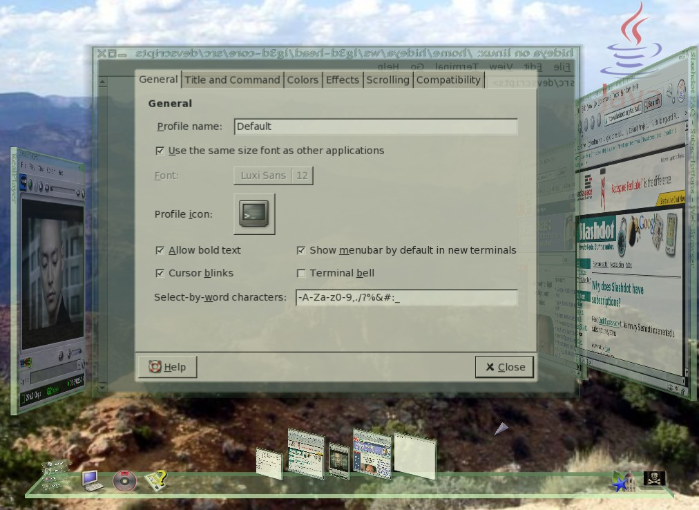 An LG3D screenshot showing an application configuration using the backside of its window